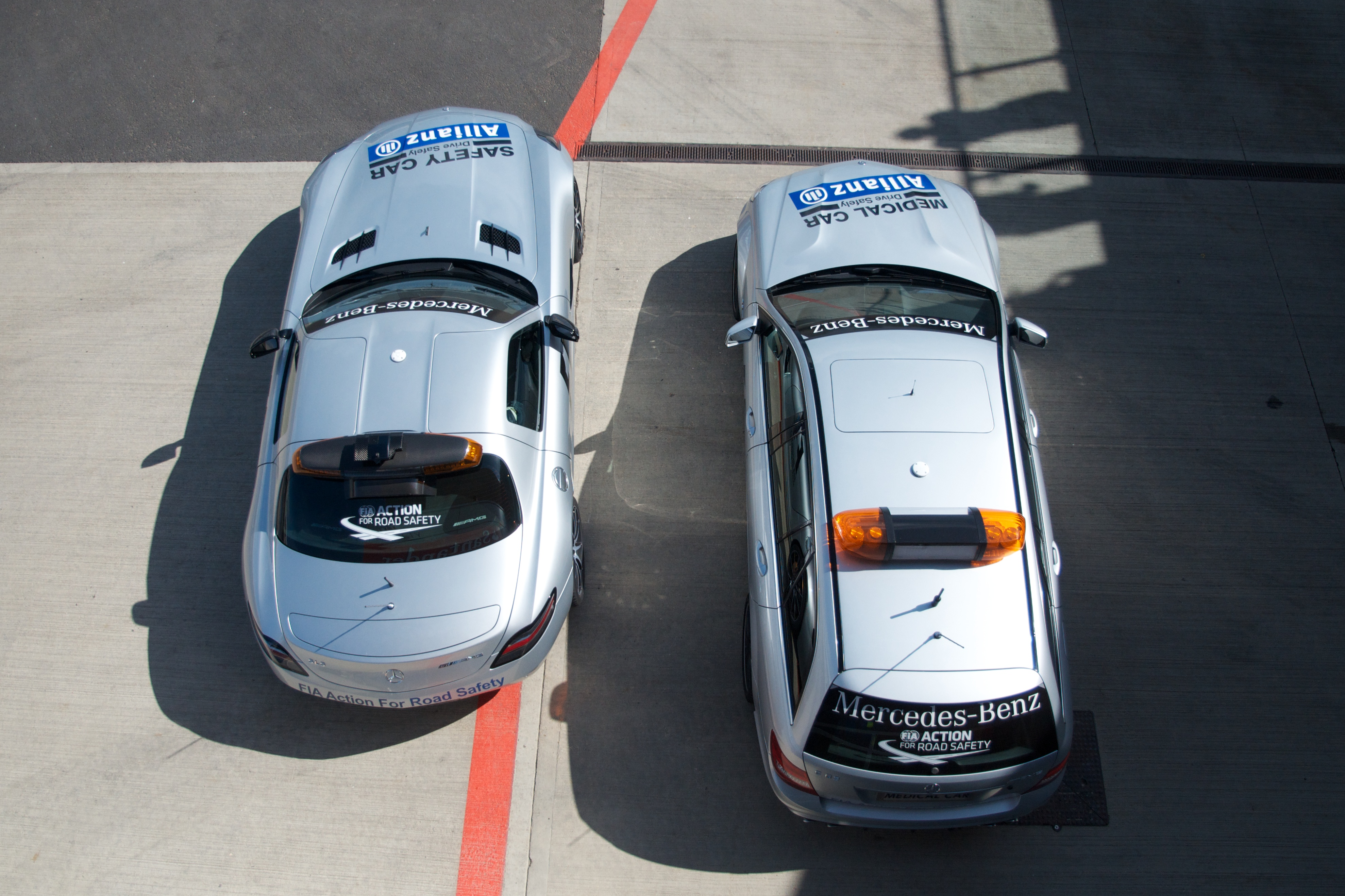 Top views of Formula One safety car and medical car.